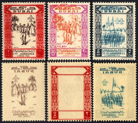 Postage stamp print errors on Dubai (UAE) scout series, 1964